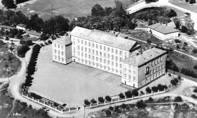 Martin koulu school in Turku.